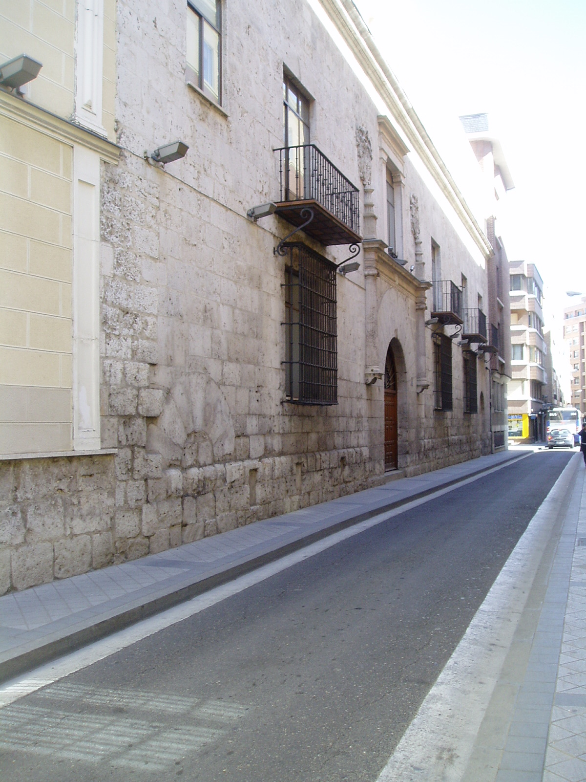 Fray Luis de León street, in Valladolid.